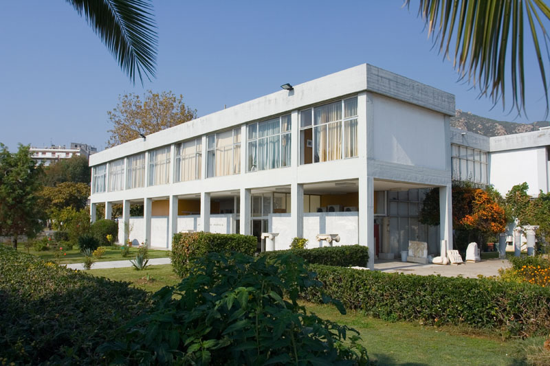 External view, image from the Archaeological Museum, Kavala, East Macedonia, Greece